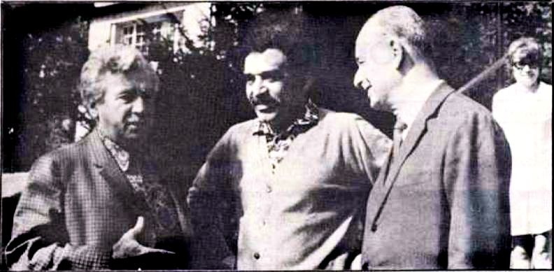 This picture is mine, part of my family's photo archive, taken by my great-aunt Rosita (Adonias Filho's wife). User:Eadonias Adonias Filho (on the right) with fellow writers Gabriel Garcia Marquez (center), and Jorge Amado (left).